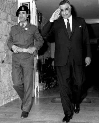 President Gamal Abdal Nasser of Egypt (right) with the Leader of the Libyan Revolution, Muammar al-Gaddafi, 1969